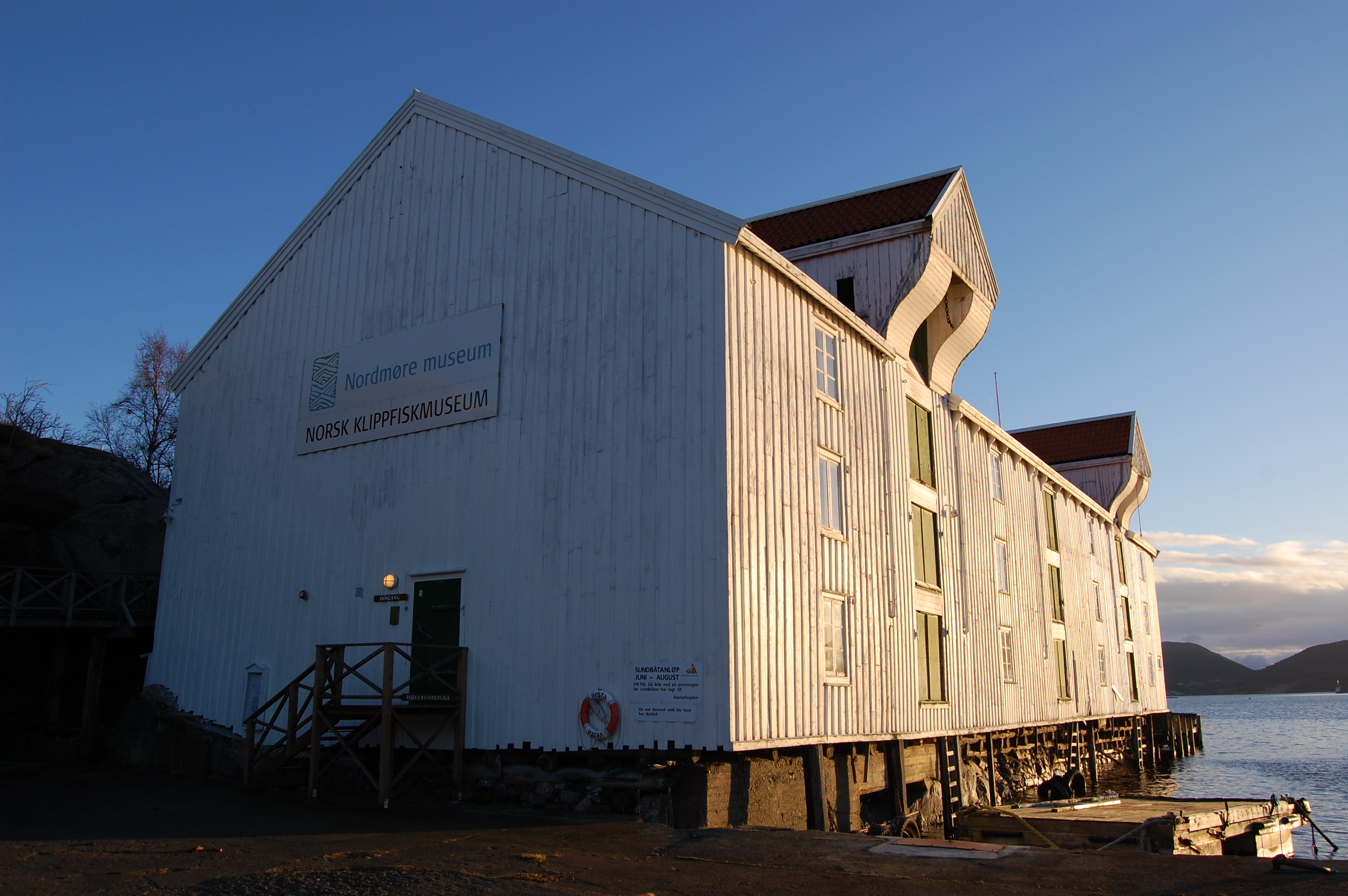 Milnbrygga, warehouse for storage of "klippfisk" (salted and dried cod). Now a part of Norwegian klippfiskmusem in Kristiansund.